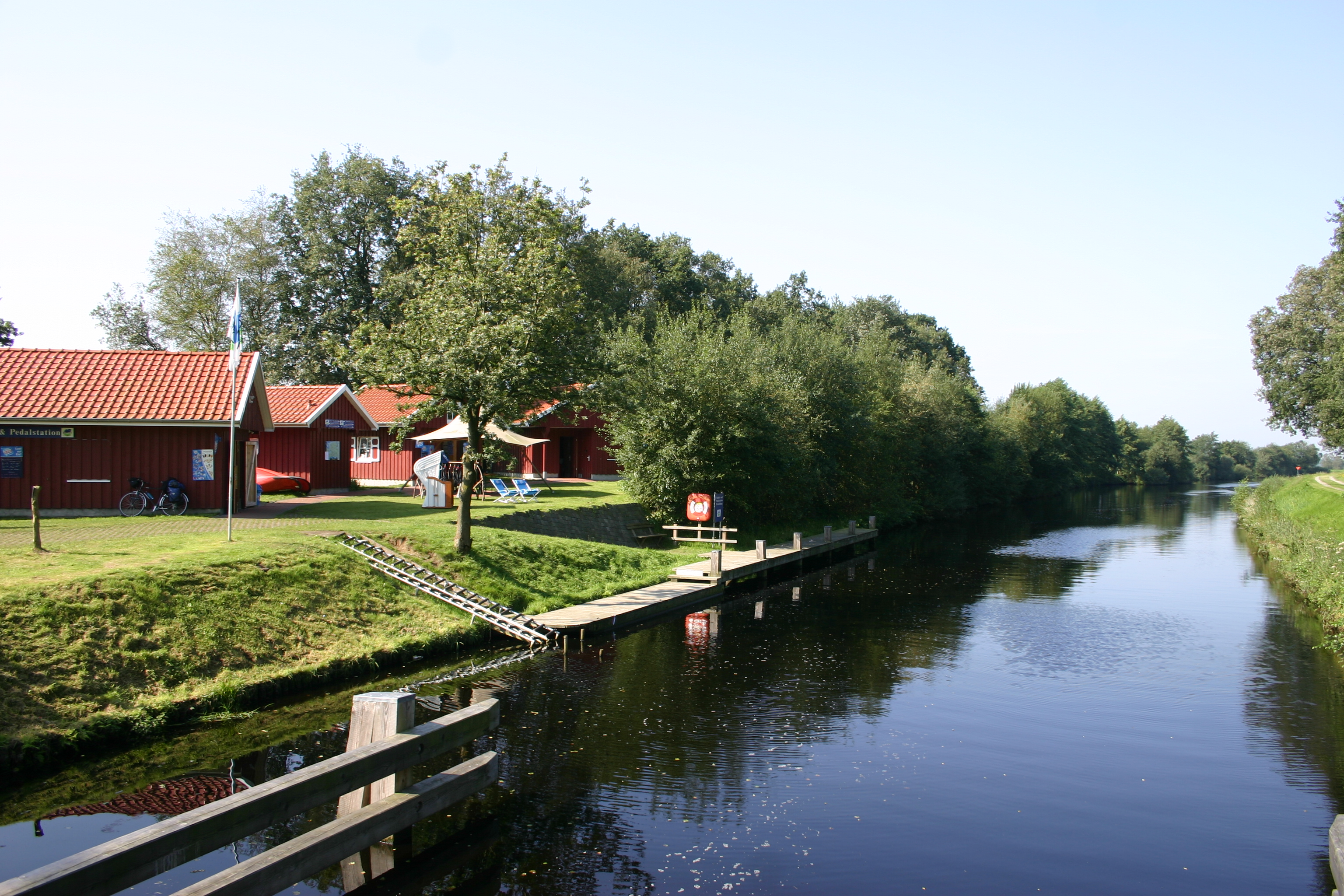 Canoeing resort near Reepsholt, community of Friedeburg, district of Wittmund, East Frisia, Germany